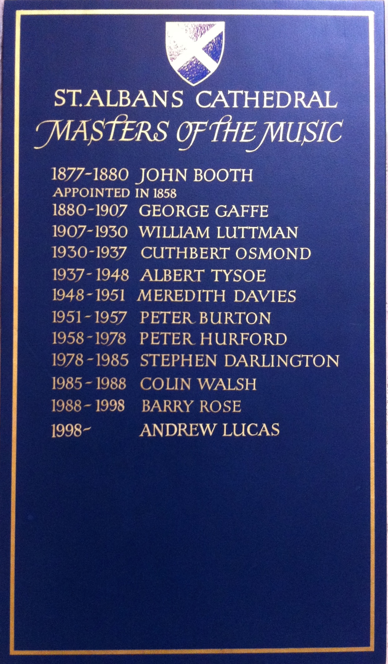 List of organists of St Alban's Cathedral